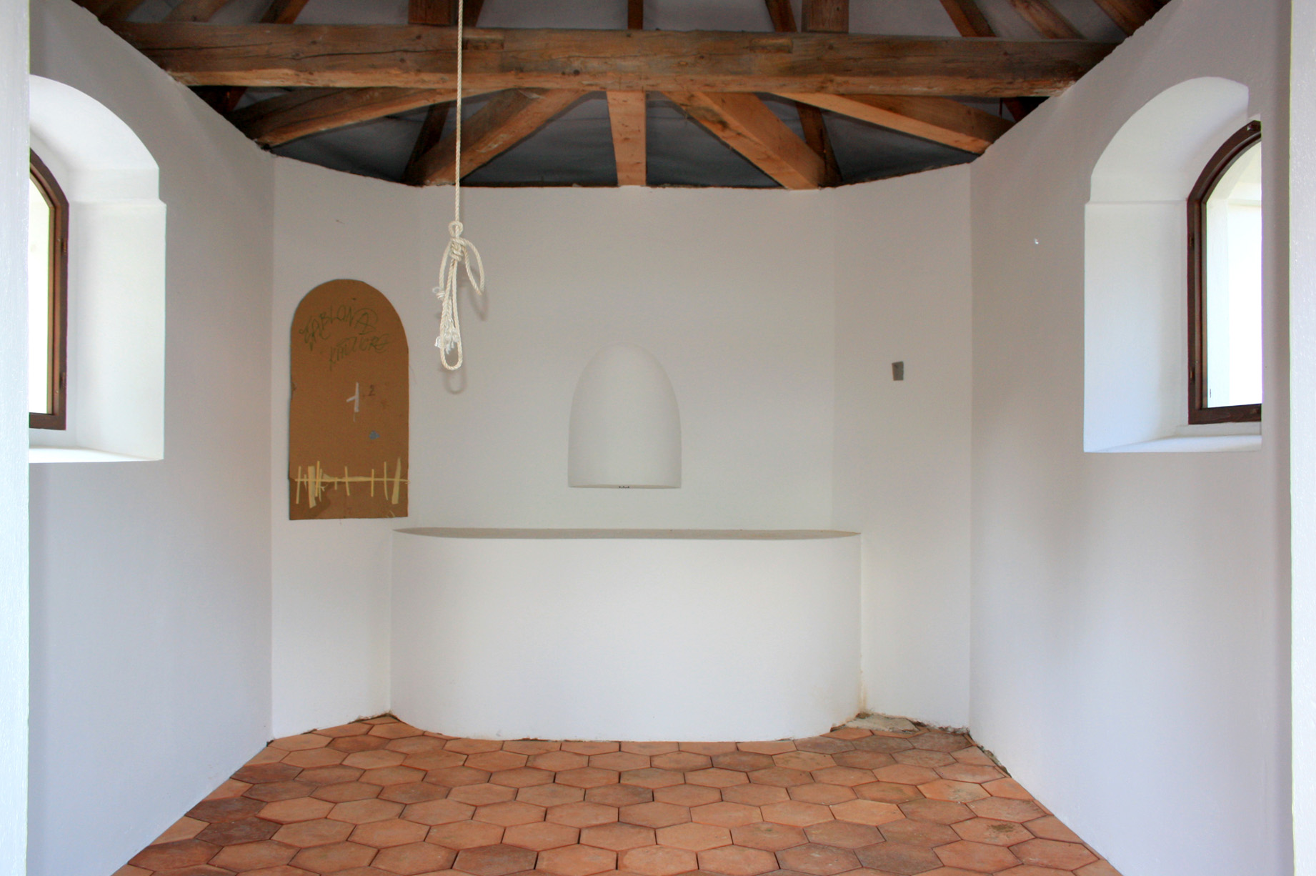 Small chapel in Hrádečná, part of Blatno, Czech Republic